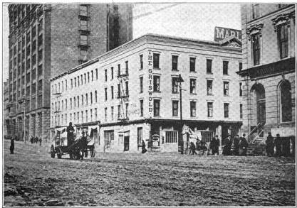 Union Trust Building, Woodward Ave, Detroit, taken c. 1890